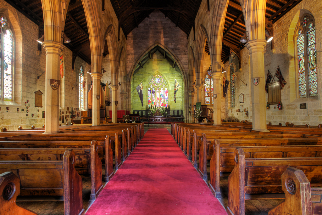 Built between 1840 and 1843, the Garrrison Church is located on Lower Fort St in the Rocks, Sydney. It was Australias first military church as every morning the soldiers from the Dawes Point Battery would march to the church.